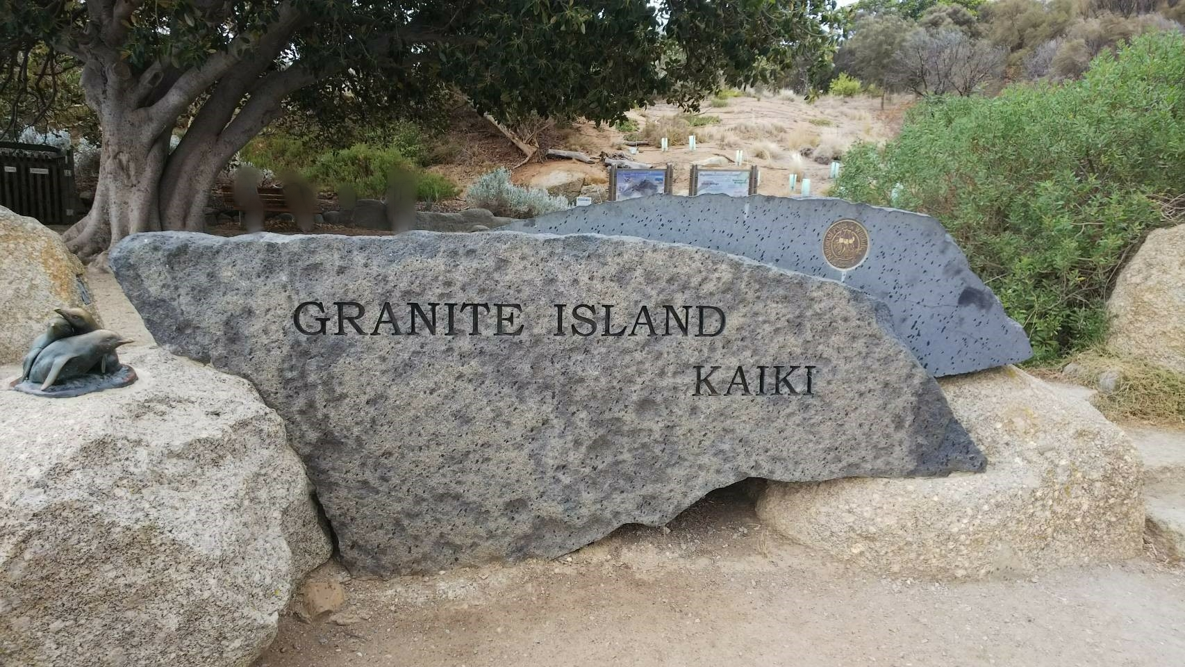 The trailhead at Granite Island, Victor Harbor in South Australia Taken on the 17th of March, 2018